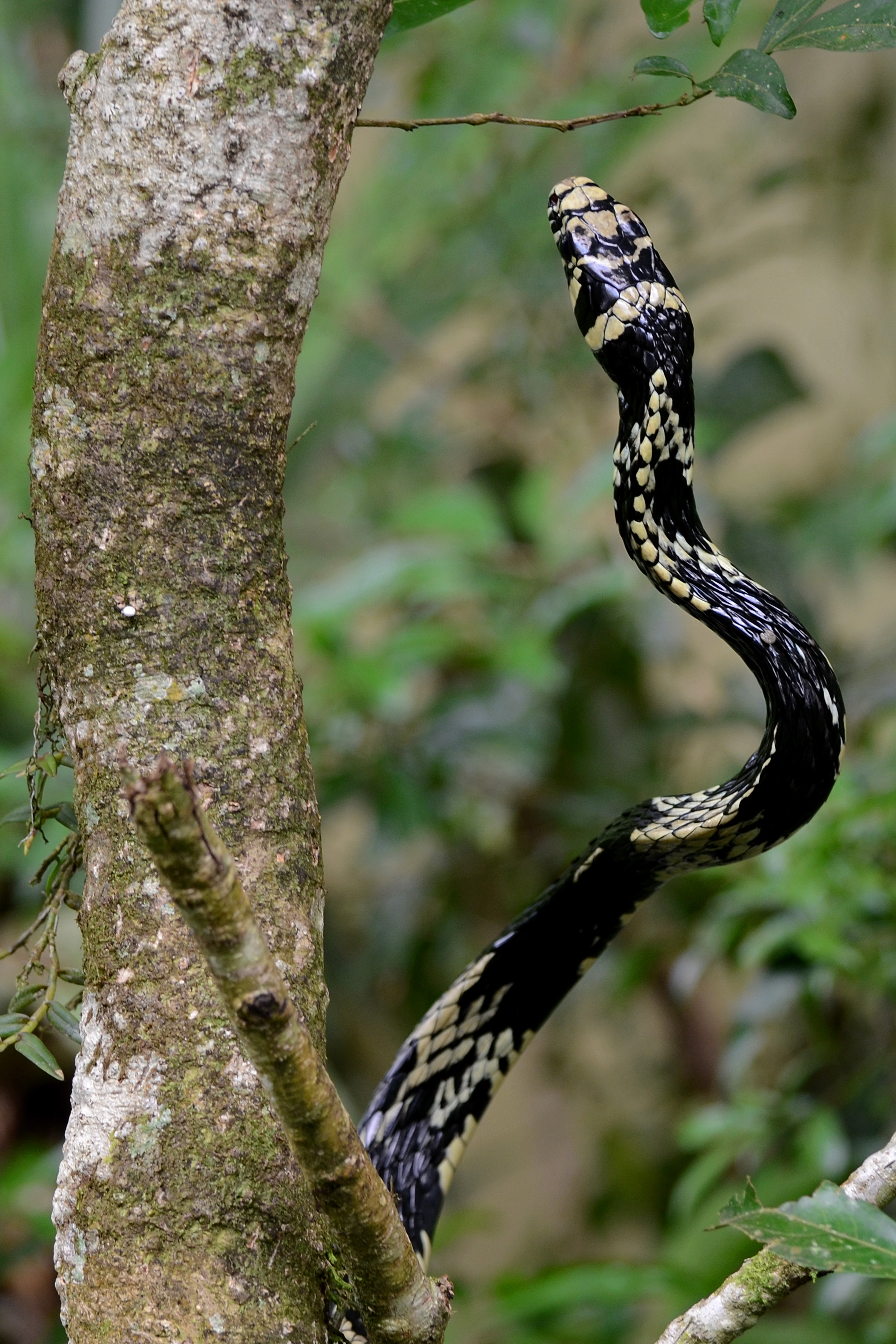 A Tigre snake (Spilotes pullatus) at La Selva Biological Station, Sarapiqui, Costa Rica.